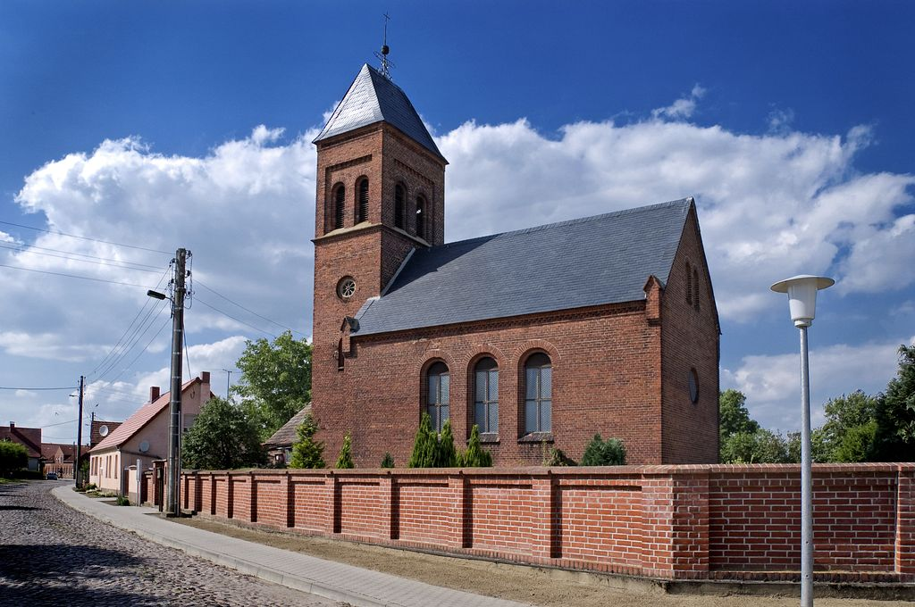 Church of Petersmark